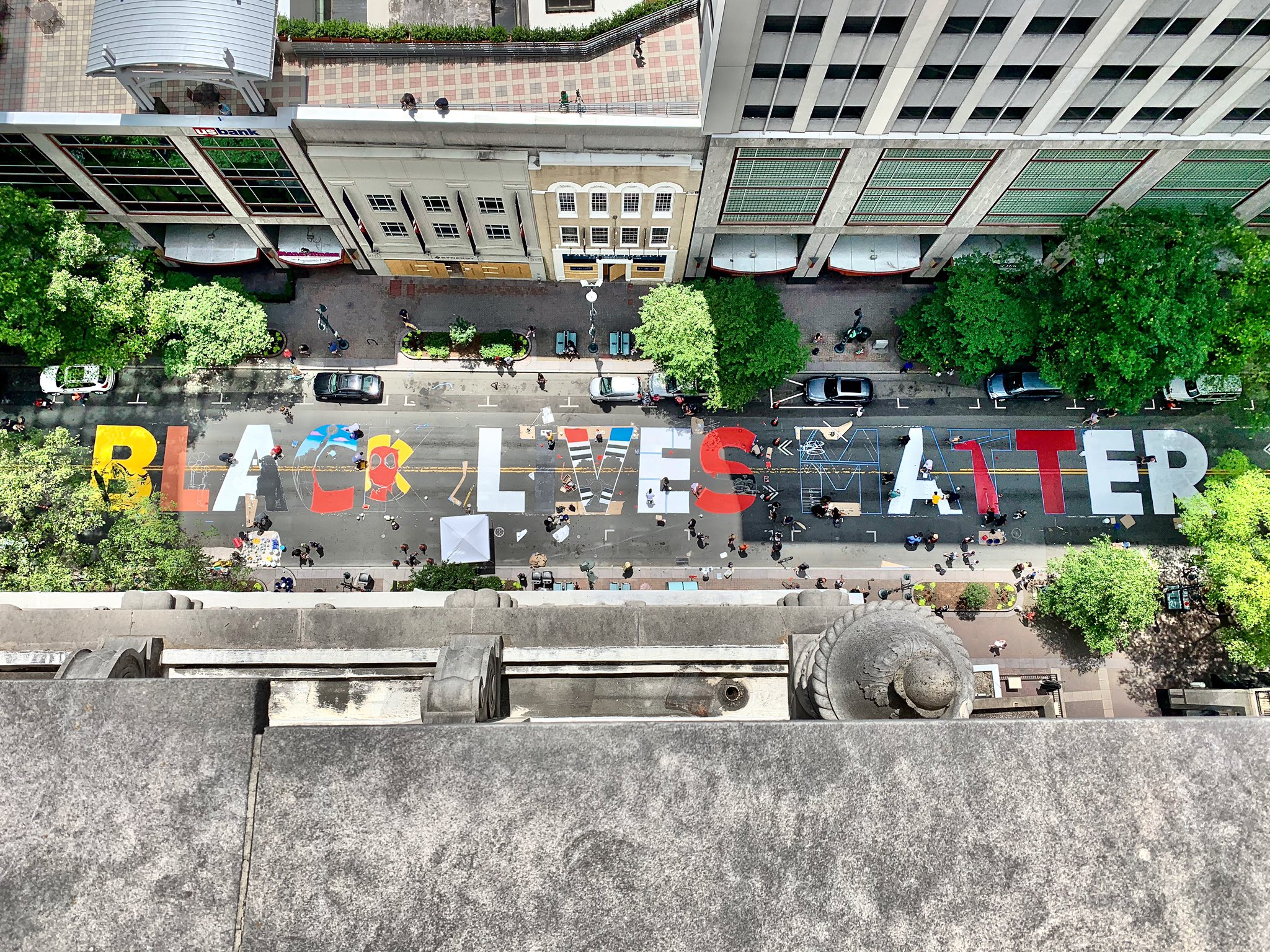 BlackLivesMatter, all right now!